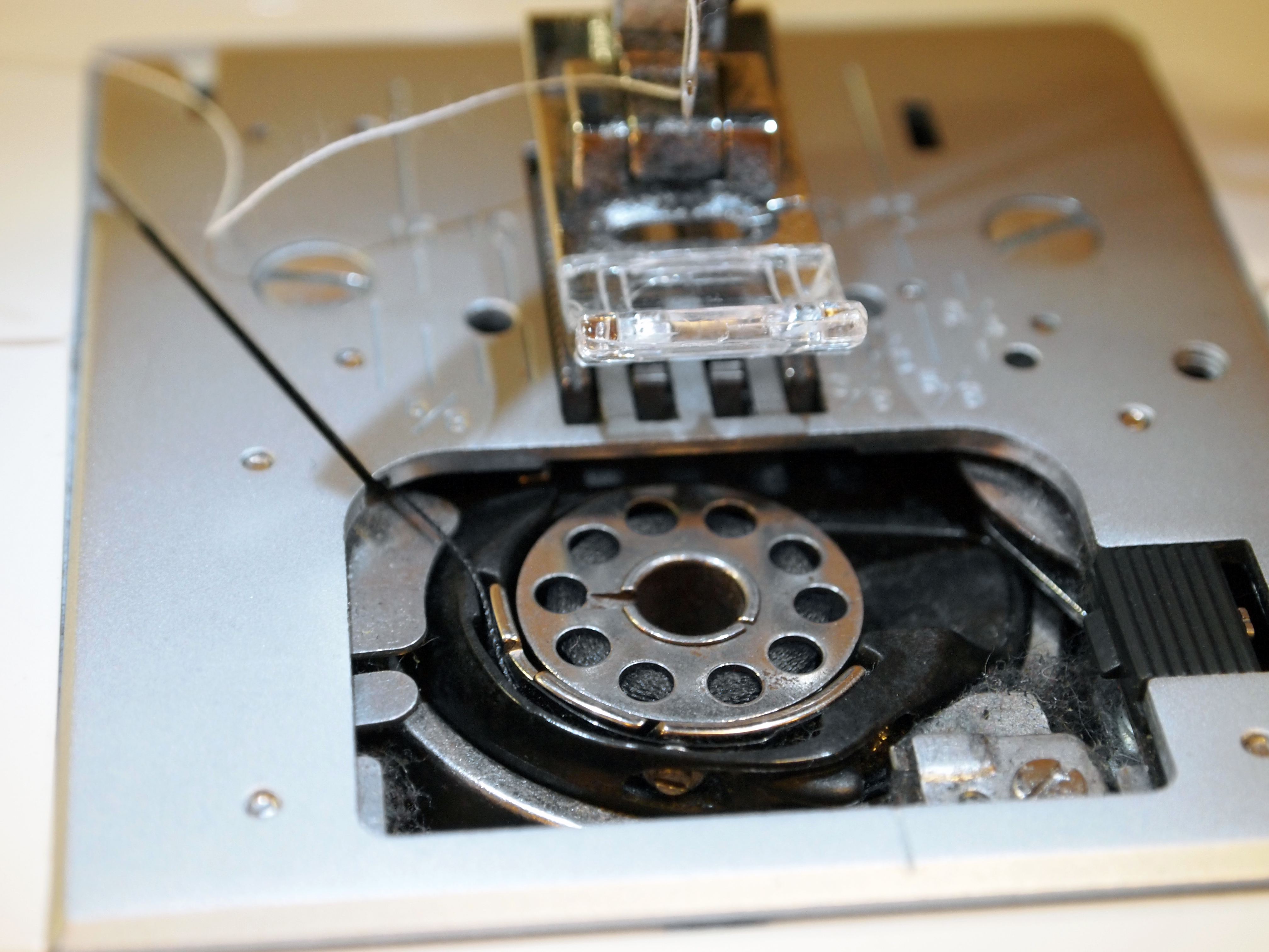 Sewing machine bobbin under the foot plate.